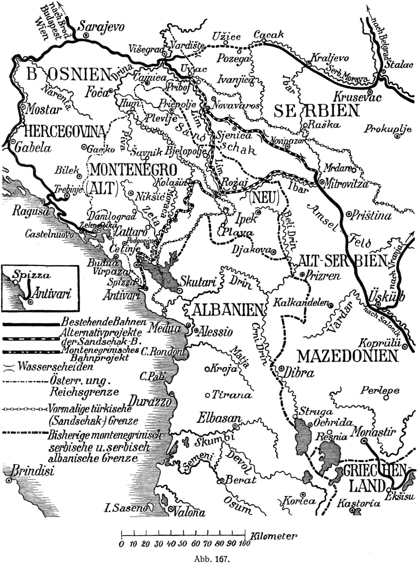 Map of the Sandschak railroad